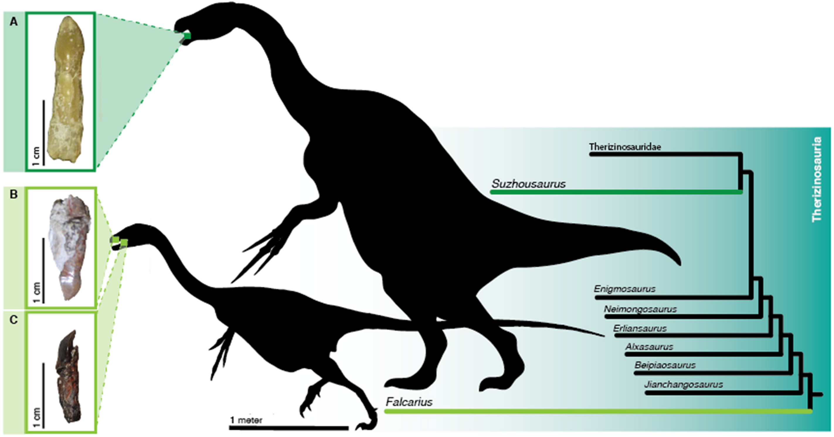 Teeth of sampled therizinosaurians. Isolated teeth of therizinosaurians pre- and post-sectioning. Location in the jaws and phylogenetic positions of therizinosaurians sampled is highlighted.(A) Dentary tooth of Suzhousaurus megatherioides in labial view. (B) Falcarius utahensis (UMNH VP 22857) maxillary tooth in labial view. (C) Dentary tooth of Falcarius utahensis (UMNH VP 15231) in mesial view. Silhouettes of a generalized early diverging and late diverging therizinosauroid modified from skeletal reconstructions published in Kirkland et al. (2005; Greg Paul) and Zanno et al. (2009; Victor Leshyk). Scale bars = 10 µm, 100 µm, 1 cm, and 1 m.